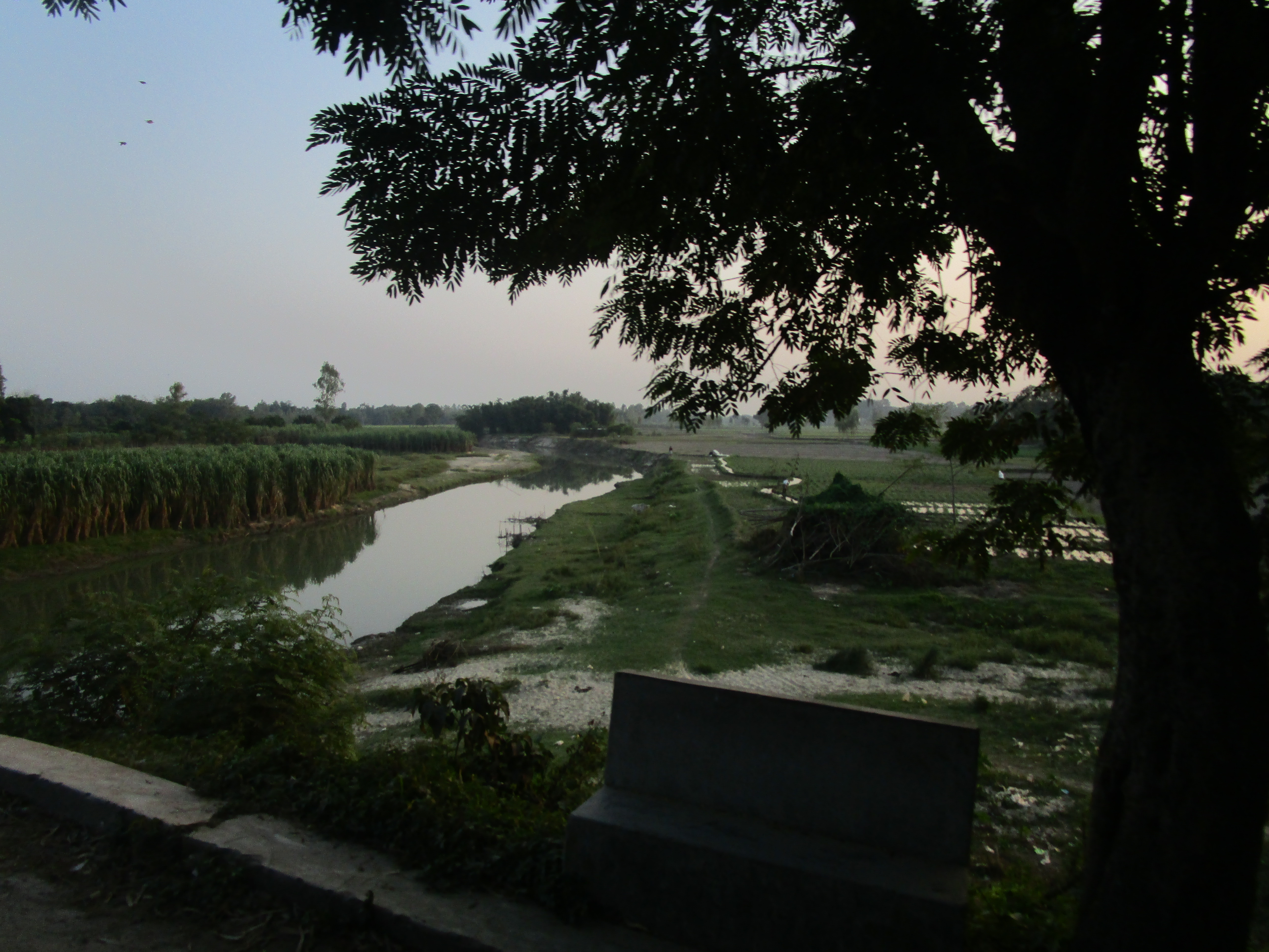 Kulik River at Ranisonkoil Upazila.